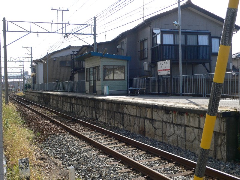 Mitsukuchi St., Hokuriku Railroad, Ishikawa, Japan.